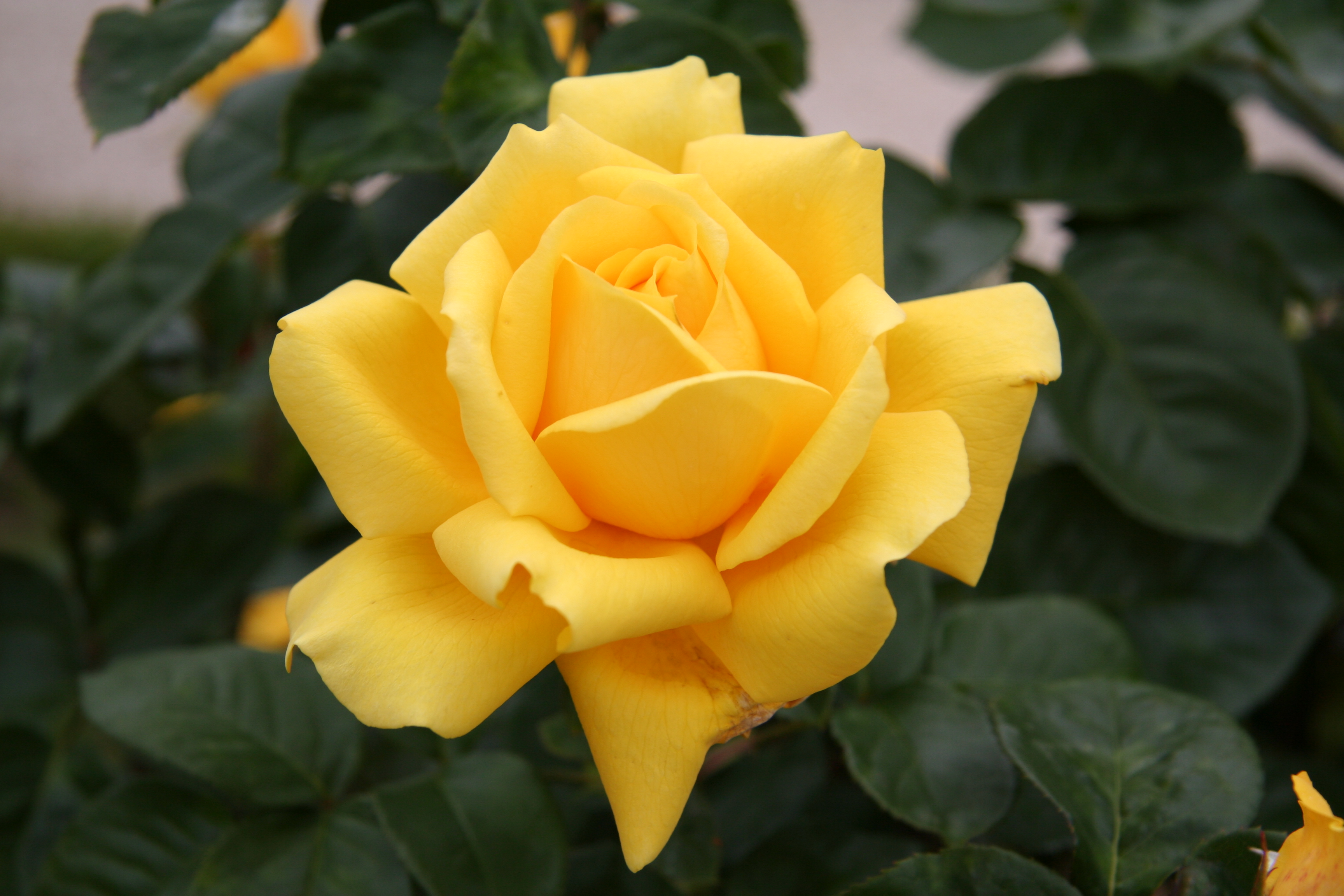 Gina Lollobrigida rose - Bagatelle Rose Garden (Paris, France).